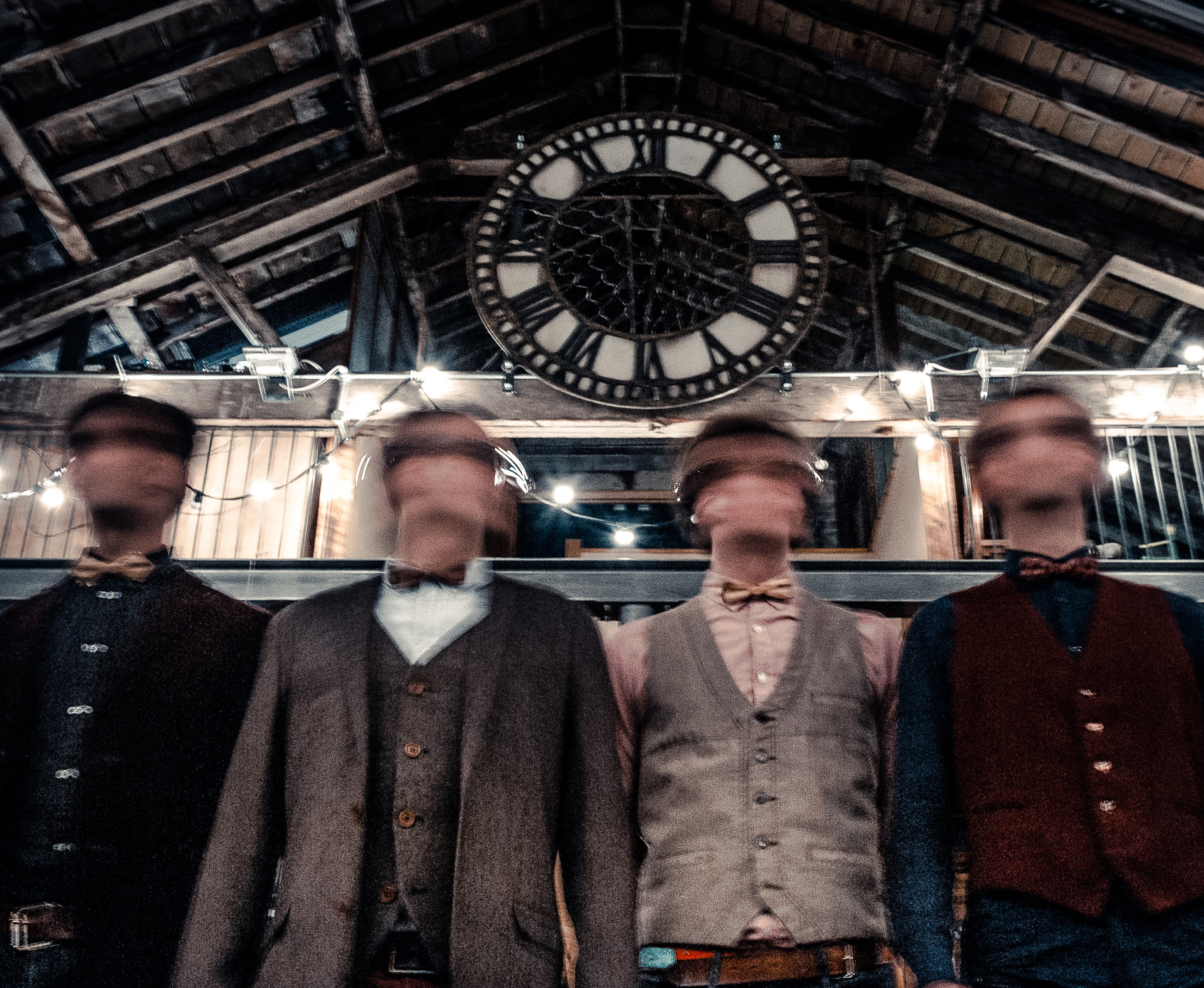 Death and the Penguin band image